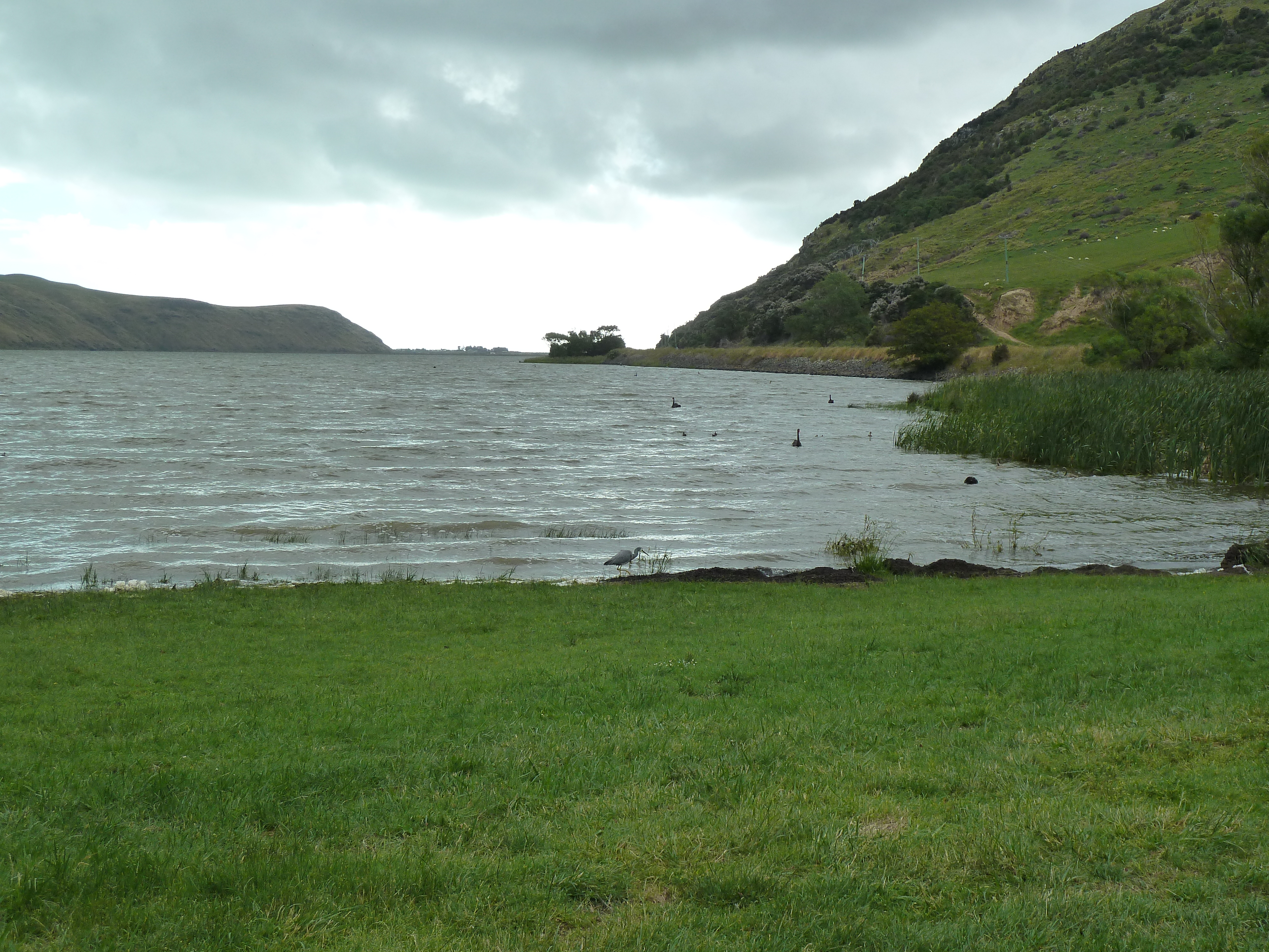 Lake Forsyth, New Zealand.